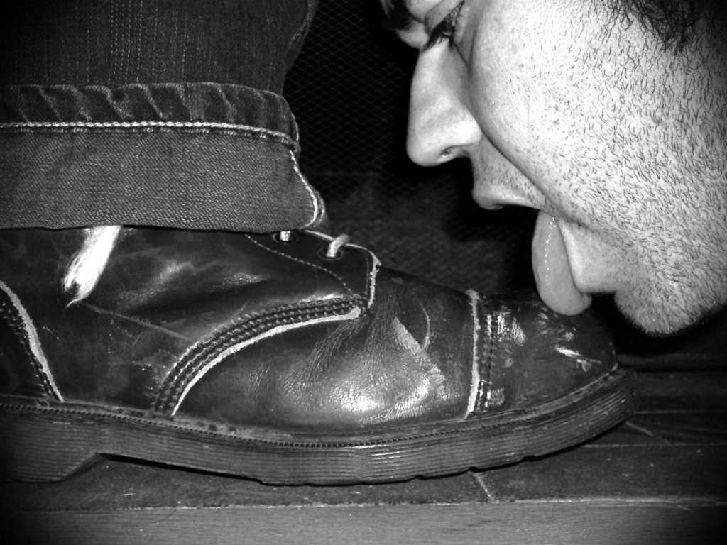 Moses Rodrigue Lov'n Boots